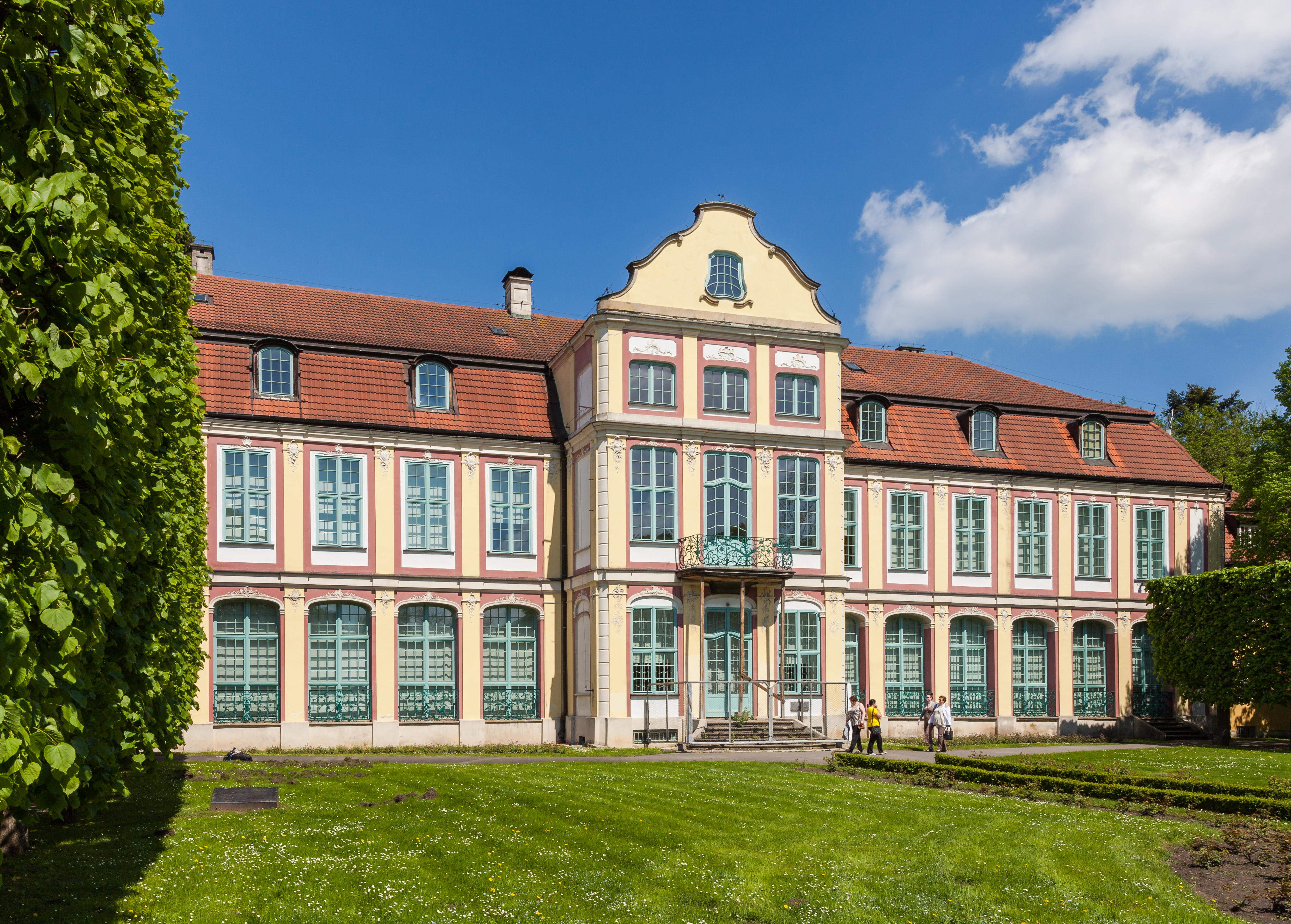 Oliwa Palace, Gdańsk, Poland